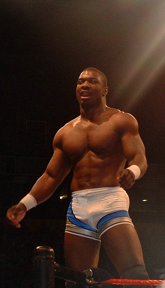 Resized and Cropped version of by thelastbohemian